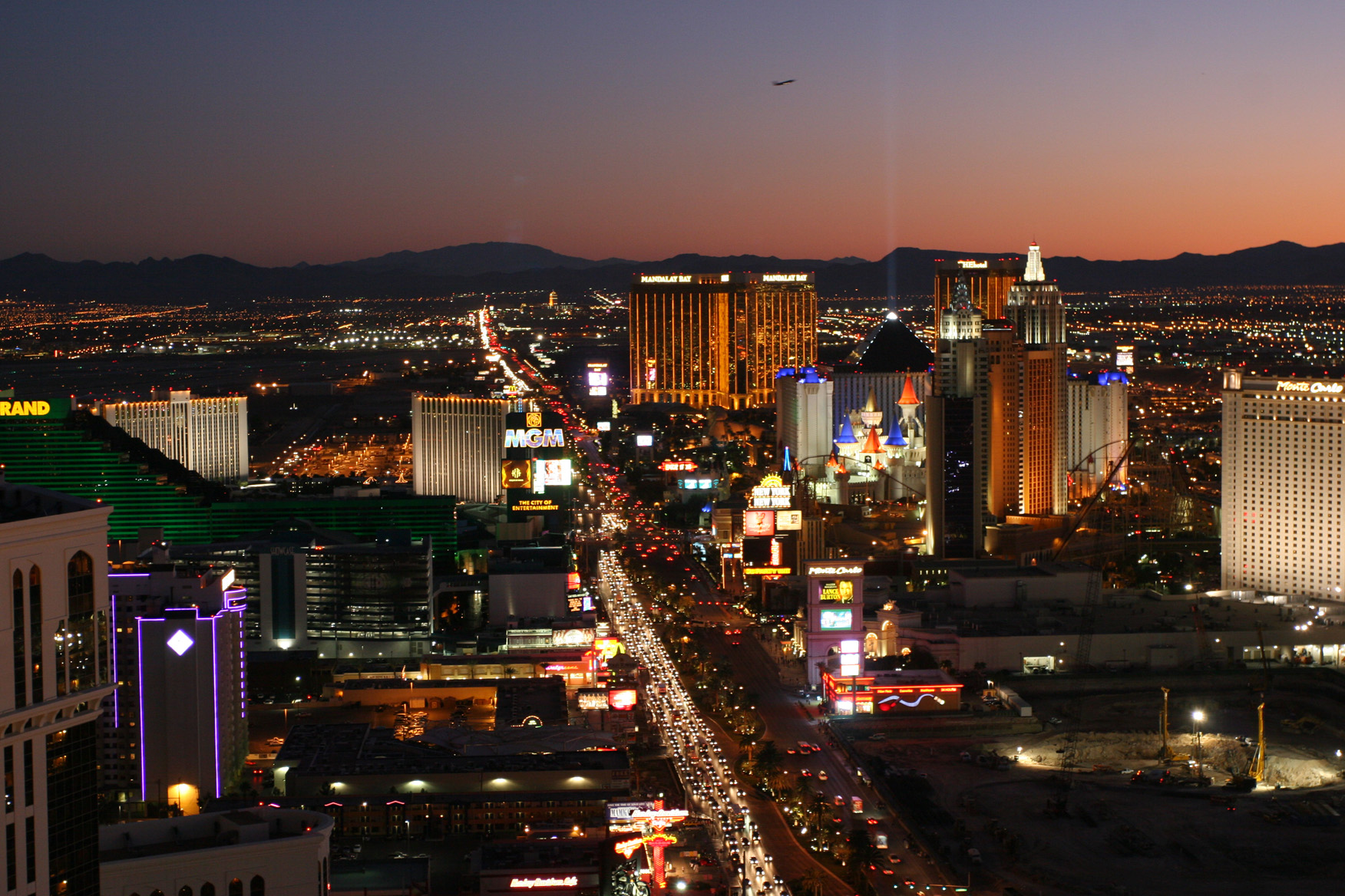 Las Vegas Strip from Paris to MGM